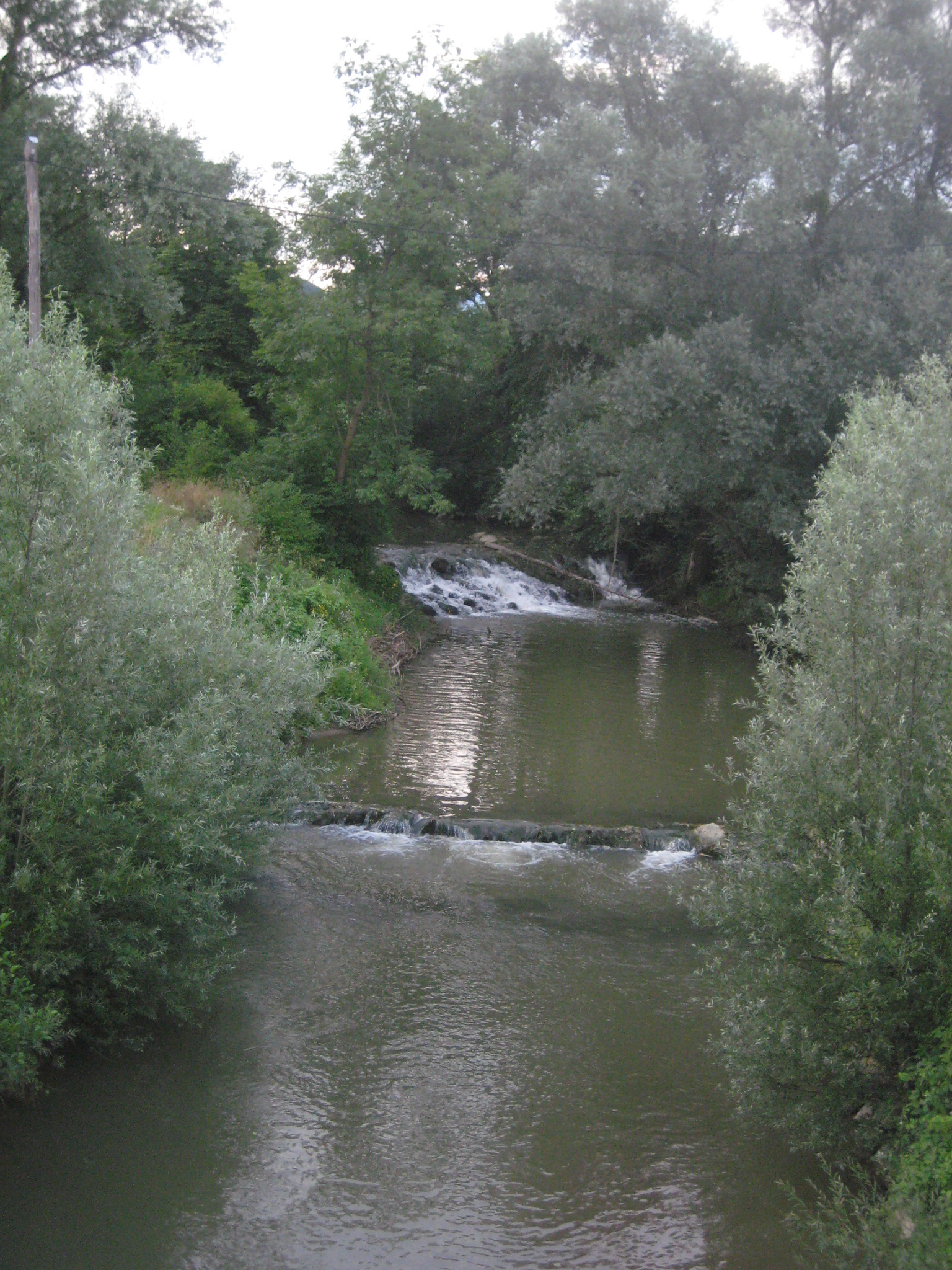 Mestinjščica, river in Slovenia